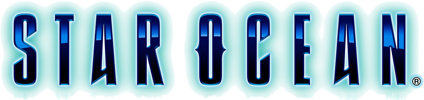 Star Ocean logo, cropped from logo for Star Ocean: The Last Hope